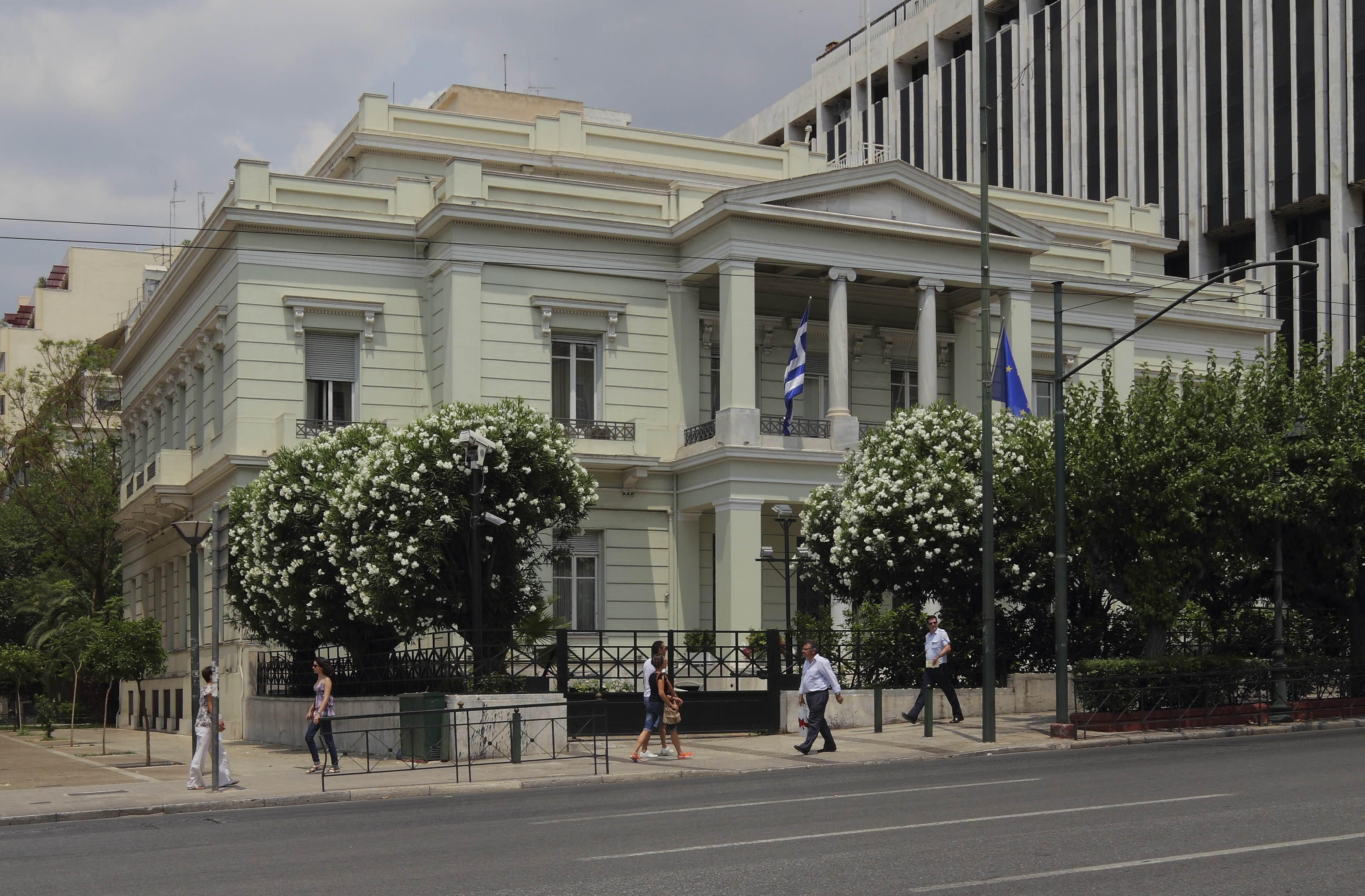 Greek Ministry of Foreign Affairs in Athens (Attica, Greece)